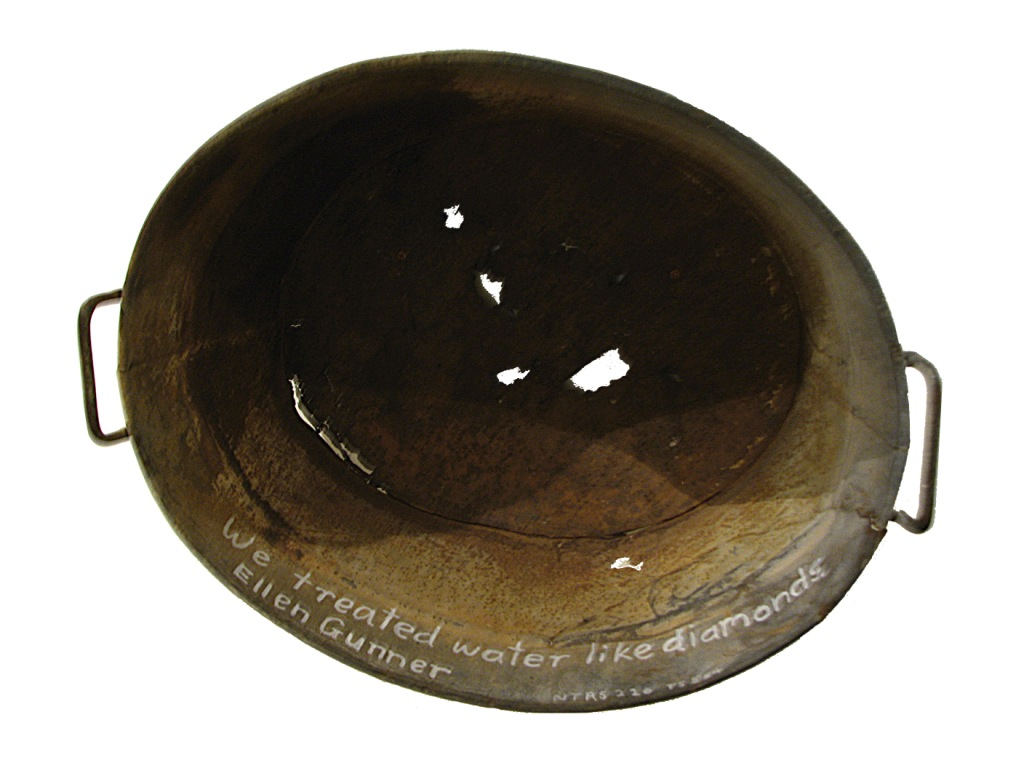 Washing bowl used on the Tennant Creek gold field in the Northern Territory Australia now on display in the Freedom, Fortitude and Flies exhibition at the Battery Hill Mining Centre